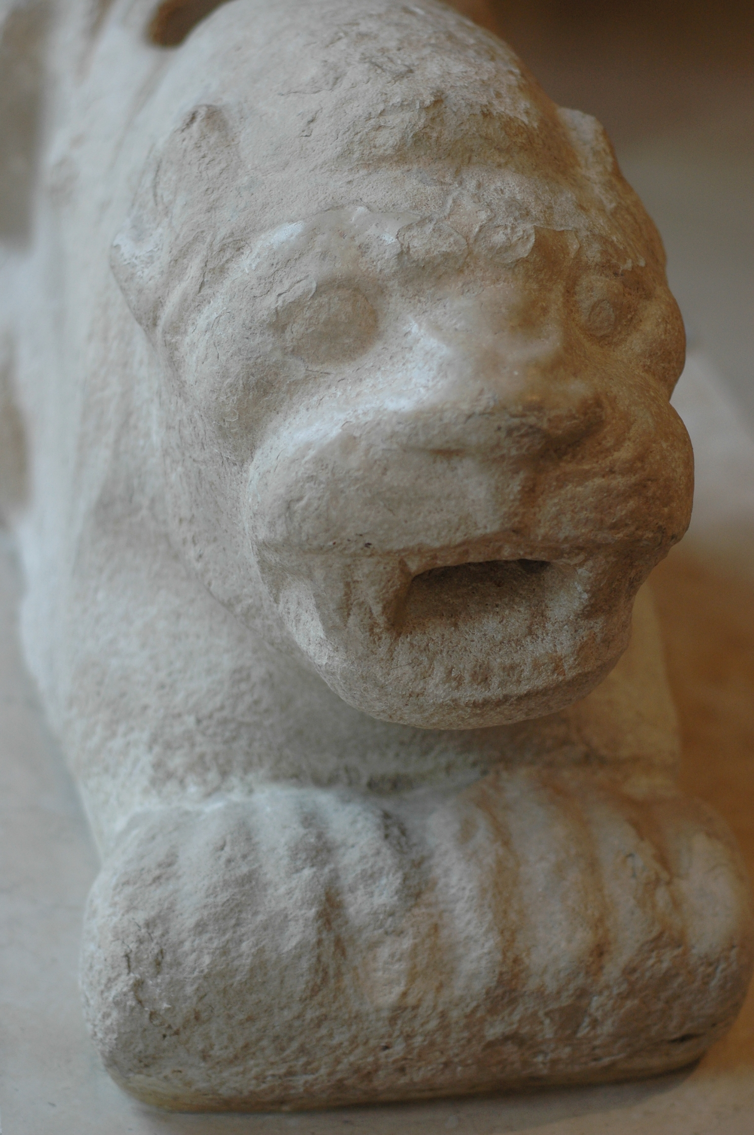 Guarding lion, limestone. Puzur-Inshushinak's reign, c. 2100 BC. Found by J. de Morgan during his excavations at the Tell of the Acropolis, in Susa.